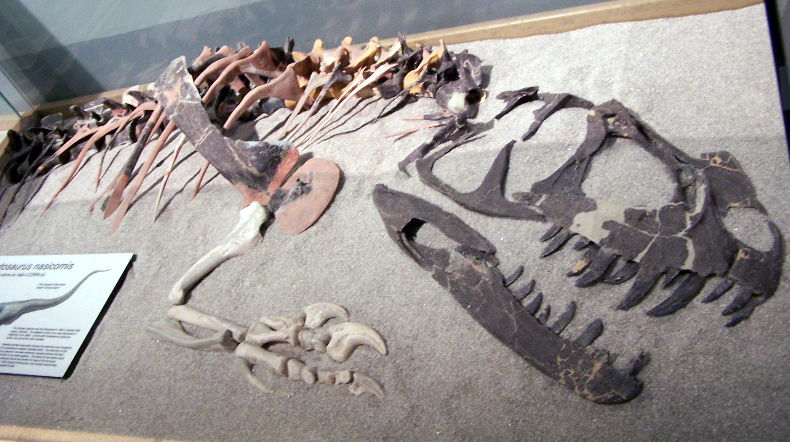 Ceratosaurus nasicornis fossil, North American Museum of Ancient Life.